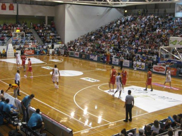 At a melb vs gld cst game at state netball and hockey center